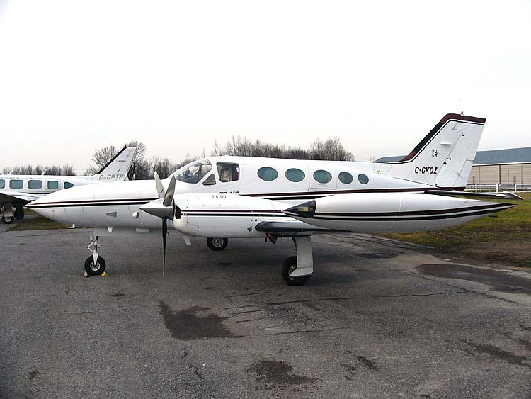 Cessna 421B Golden Eagle (C-GKOZ) seen at Carp Airport near Ottawa ON, 17 December 2006